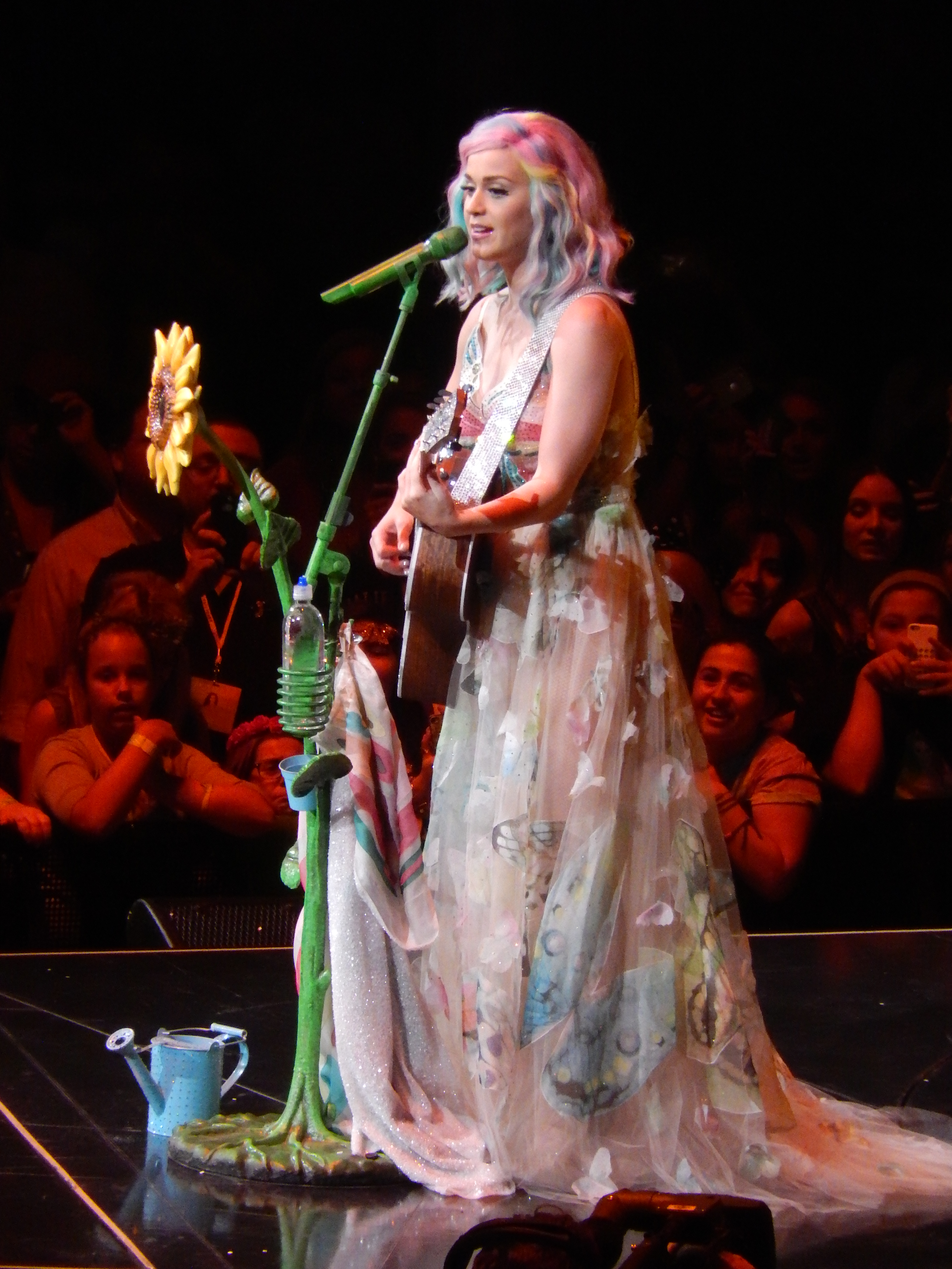 Katy Perry performing at the Prudential Center in Newark, New Jersey on July 11, 2014.